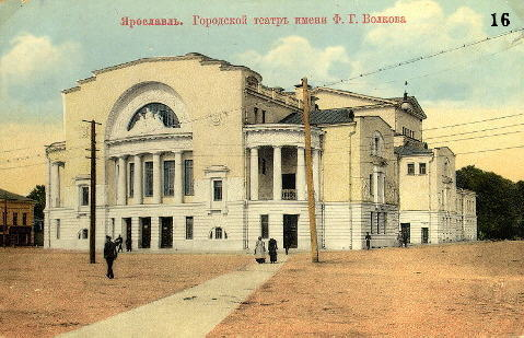 Volkov theater